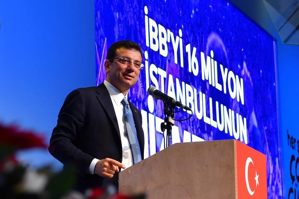 Ekrem İmamoğlu 20190522